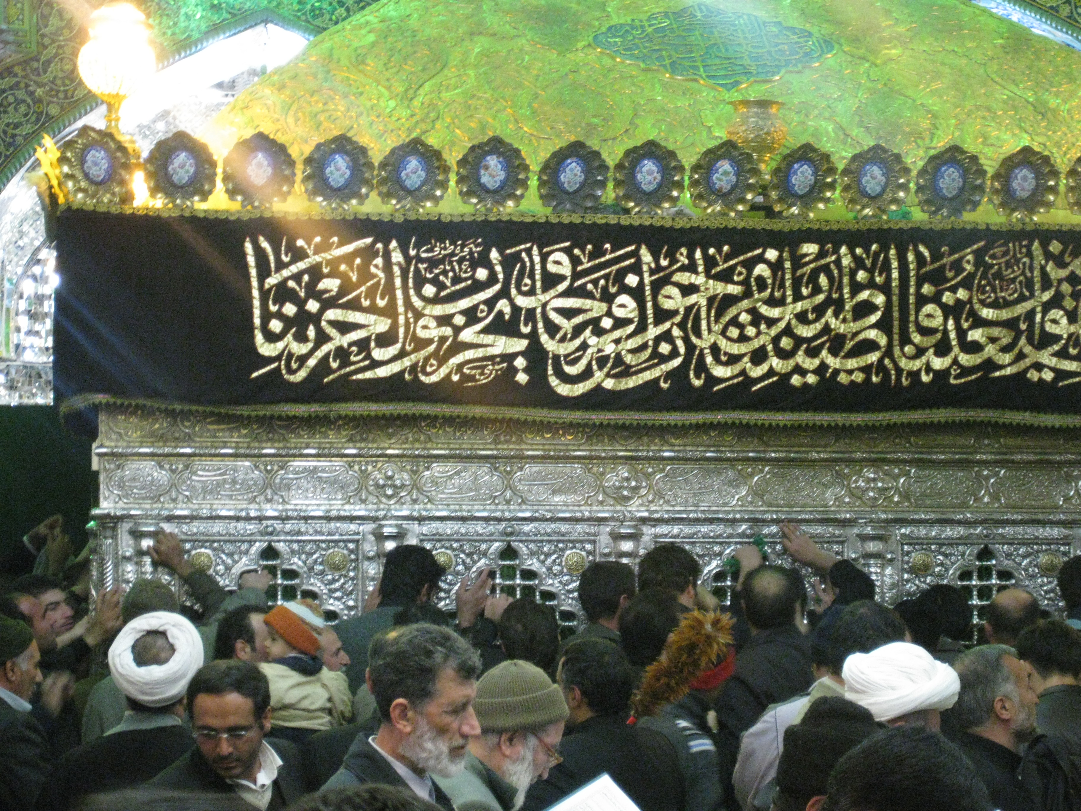 Shrine of Fatimah Ma'sūmah, Qom, Iran.